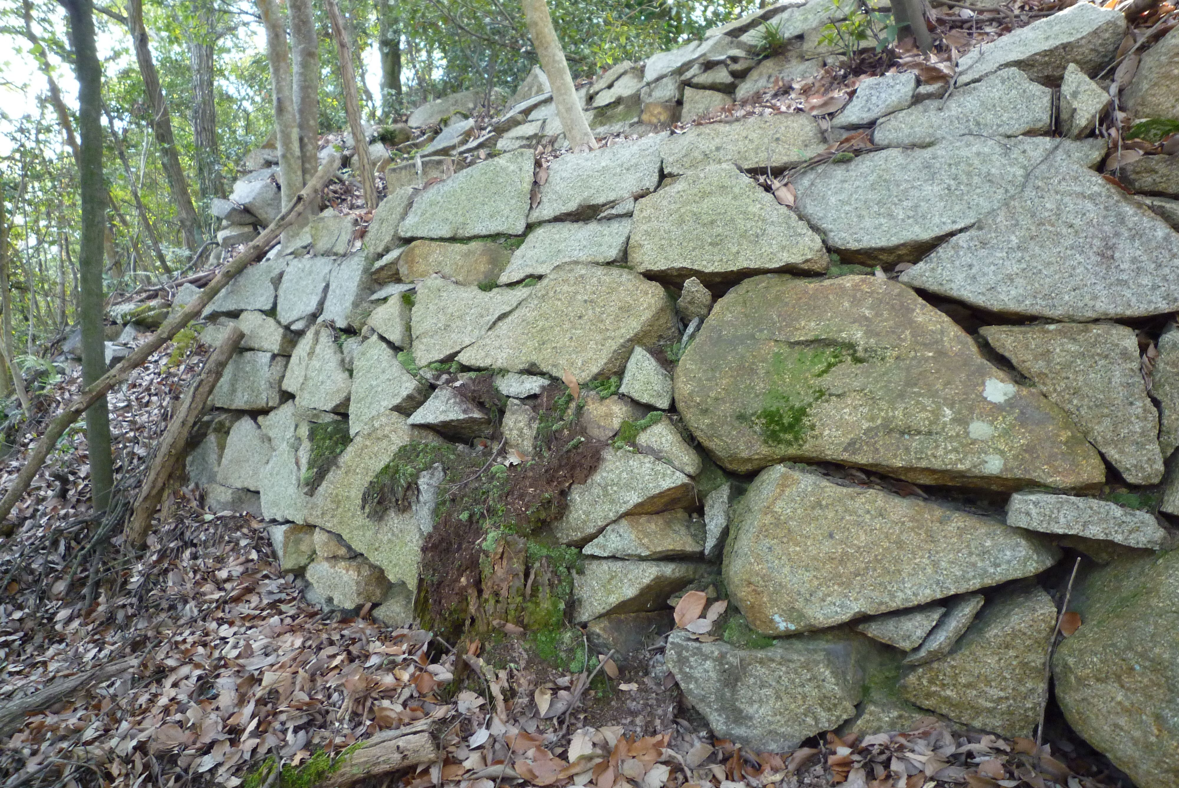 Stone wall of Myozenji castle (Naka-ku, Okayama City, Okayama Pref, JPN)